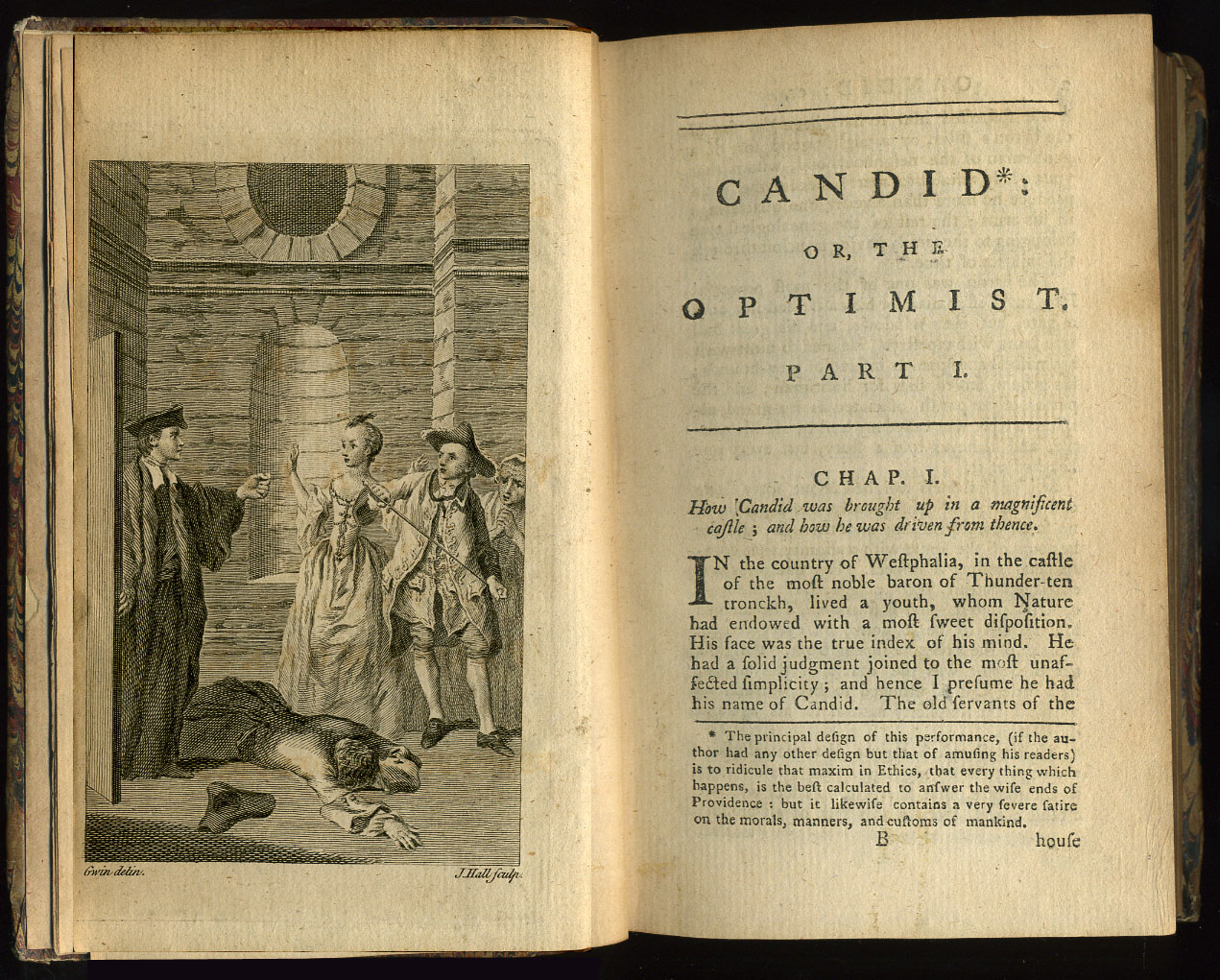 Frontispiece and first page of chapter one of an early English translation by T. Smollett (et al.) of Voltaire's "Candide", London, printed for J. Newbery (et al.), 1762 (Prose Works, vol. XVIII, pp. 1–141).